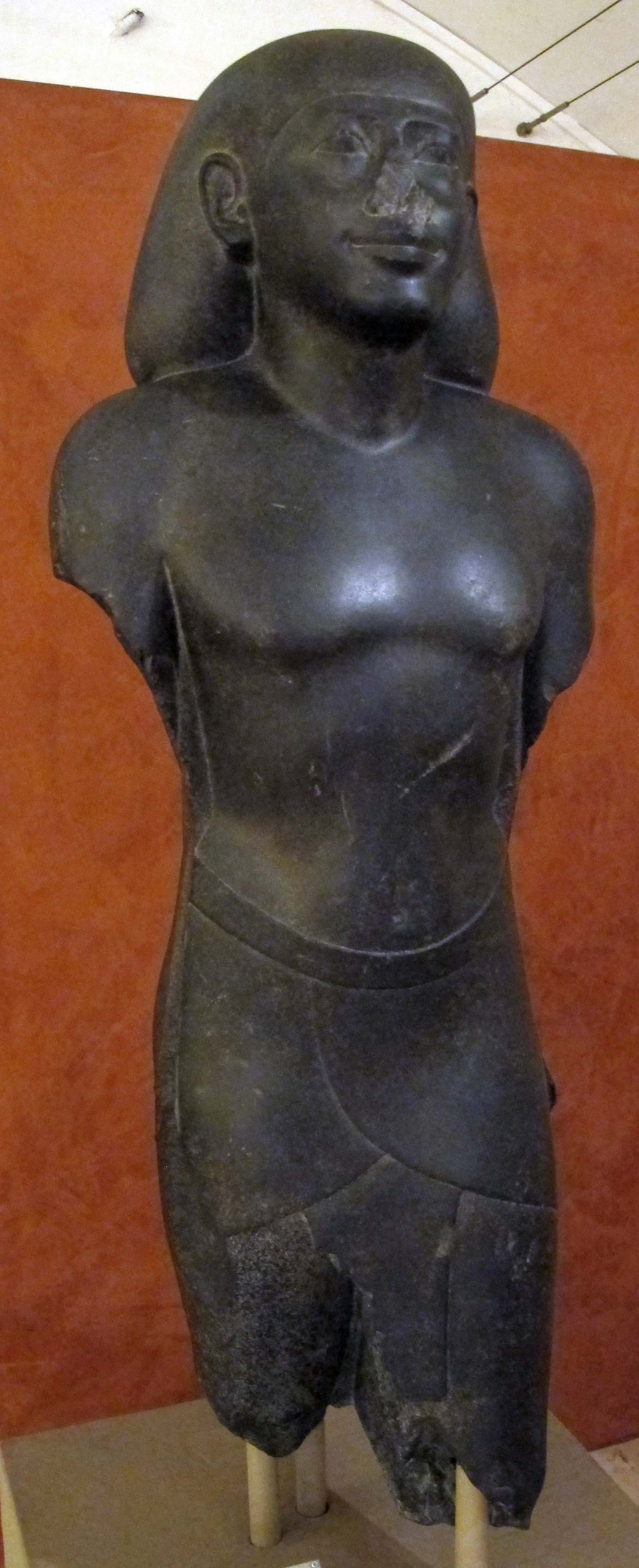 Egyptian antiquities in the Archeological Museum of Bologna